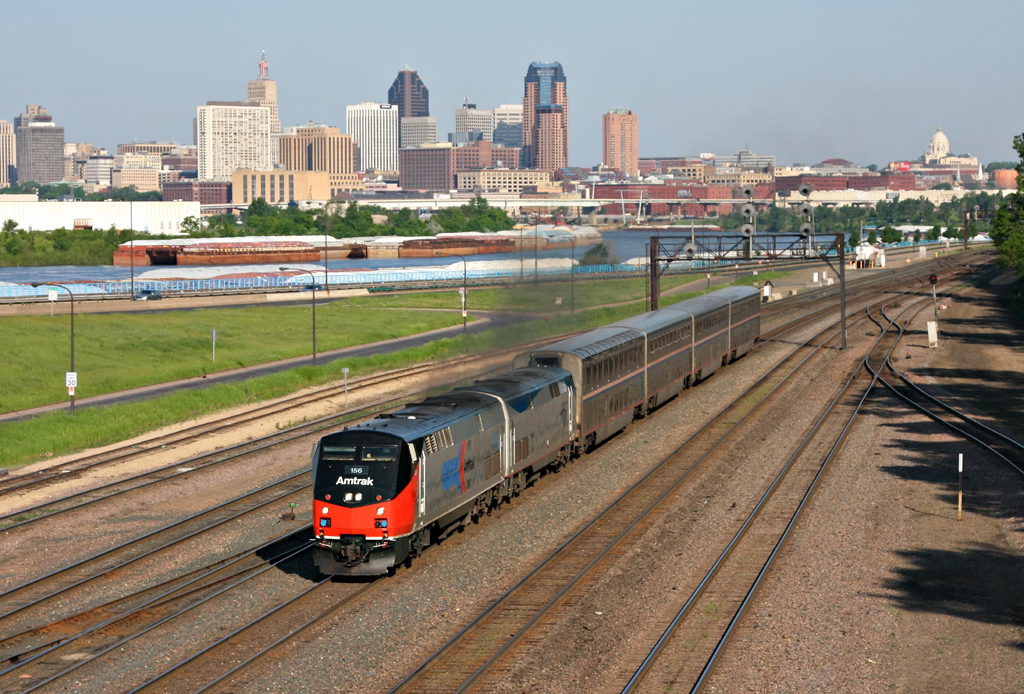 A short 4 car Builder with heritage loco 156 leaves St. Paul behind on 6/5/11. Amtrak stubbed the Builder at St. Paul because of flooding on the high plains.